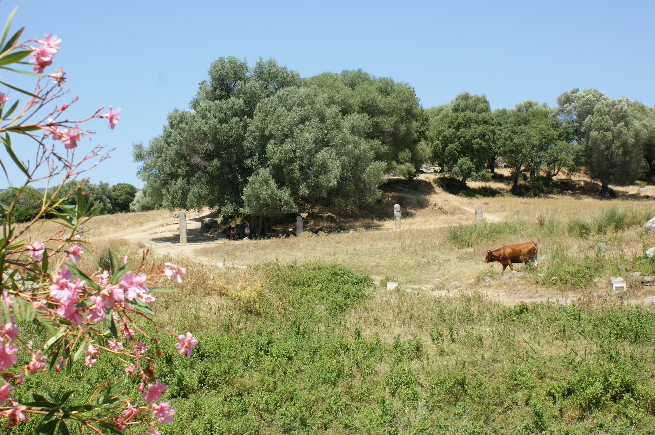 Menhirs at the megalitic site of Filitosa in the south of Corsica, France.